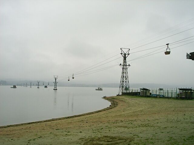 Modrac Lake near the town of Tuzla, central Bosnia, BiH